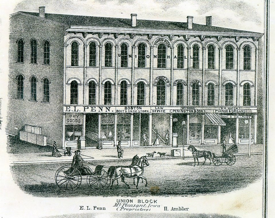 Union Block (Mount Pleasant, Iowa), 1870, from the 1870 Atlas of Henry County, Iowa